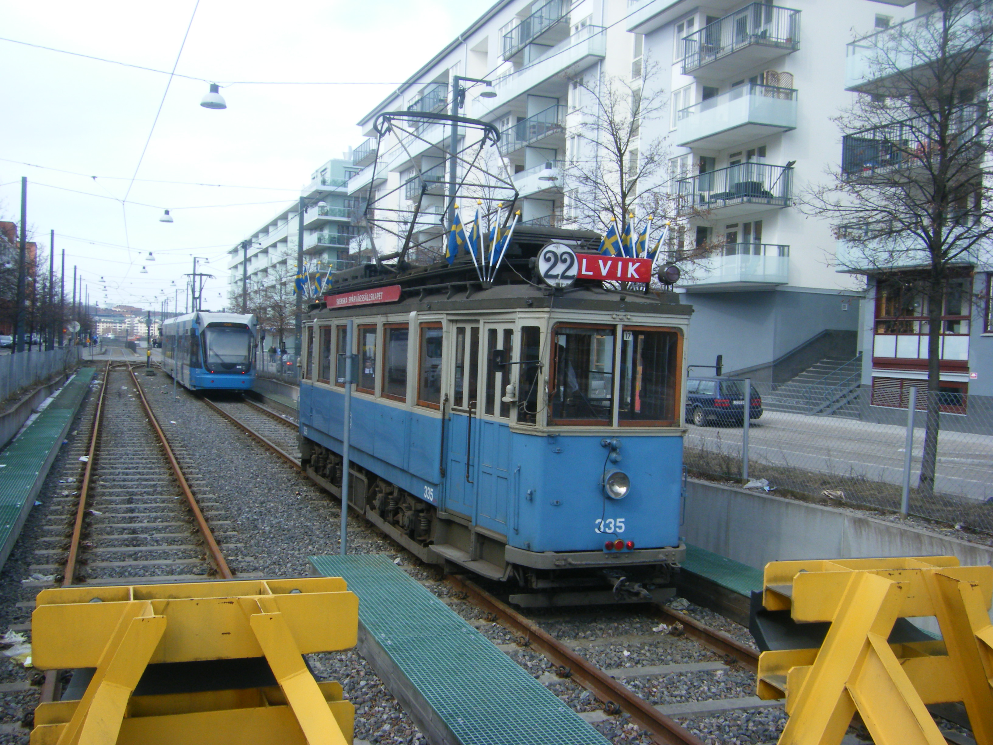 Old and new tram on Tvärbanan